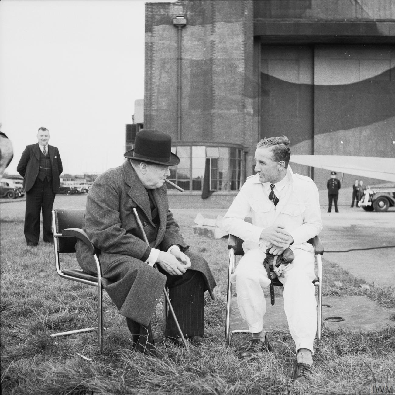 Winston Churchill during the Second World War The Prime Minister, Winston Churchill, talking to Alex Henshaw, holder of the Cape Town to London record and now a Spitfire test pilot. He had just landed after a demonstration flight and the Prime Minister asked him questions about his reactions to the terrific speed at which he had been travelling. Mr Churchill (in 'John Bull' hat and smoking a cigar) and Mr Henshaw (in white flying overalls) are seated in the open in front of the camouflaged doors of a large aircraft hangar.